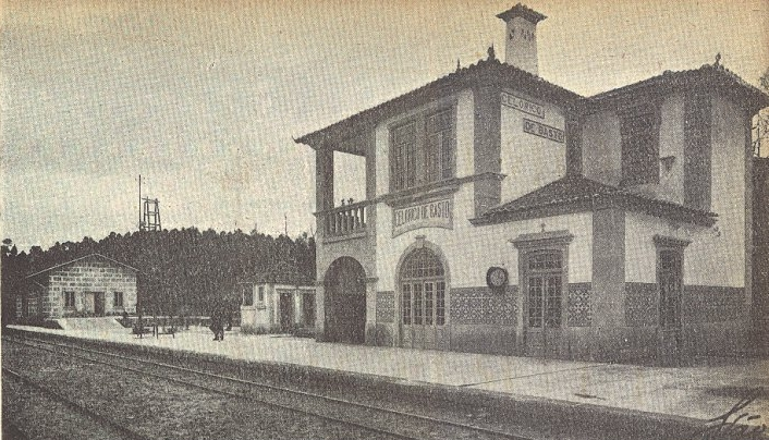 Celorico de Basto Railway Station, in the Tâmega Railway, in Portugal. This photograph was originally published in the Gazeta dos Caminhos de Ferro No. 1104, of the 16th December 1933, and scanned by the Hemeroteca Municipal de Lisboa.